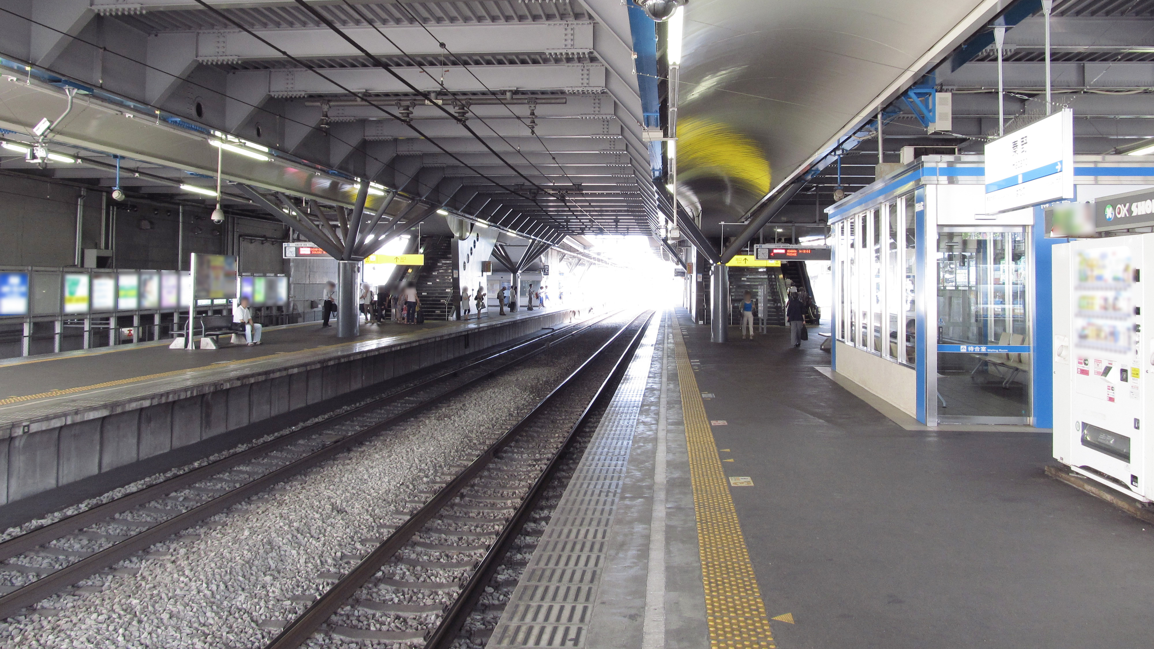 The platforms at Hadano Station on the Odakyū Electric Railway Odawara Line in Hadano city, Kanagawa, Japan